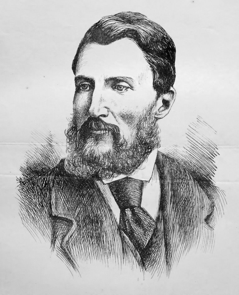 Joseph Orpen. MLA for Queenstown. Cape Colony.